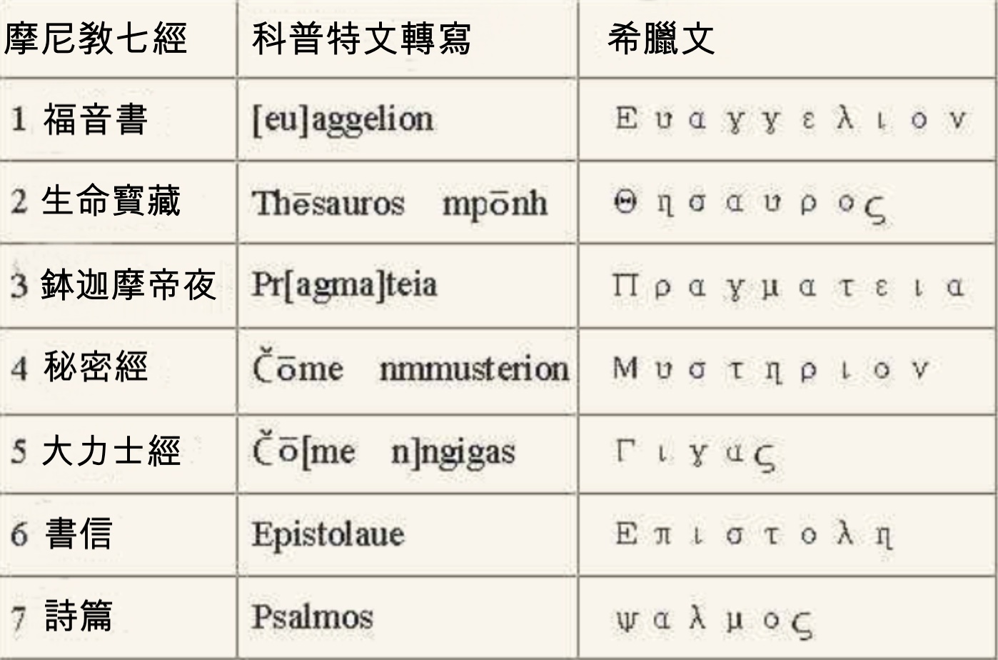 The Manichaean scriptural canon, otherwise known as the Seven treaties of Manichaeism: 1, Gospel of Mani; 2, The Treasure of Life; 3, The Pragmateia; 4, The Book of Mysteries; 5, The Book of Giants; 6, The Epistles; 7, Psalms and Prayers.